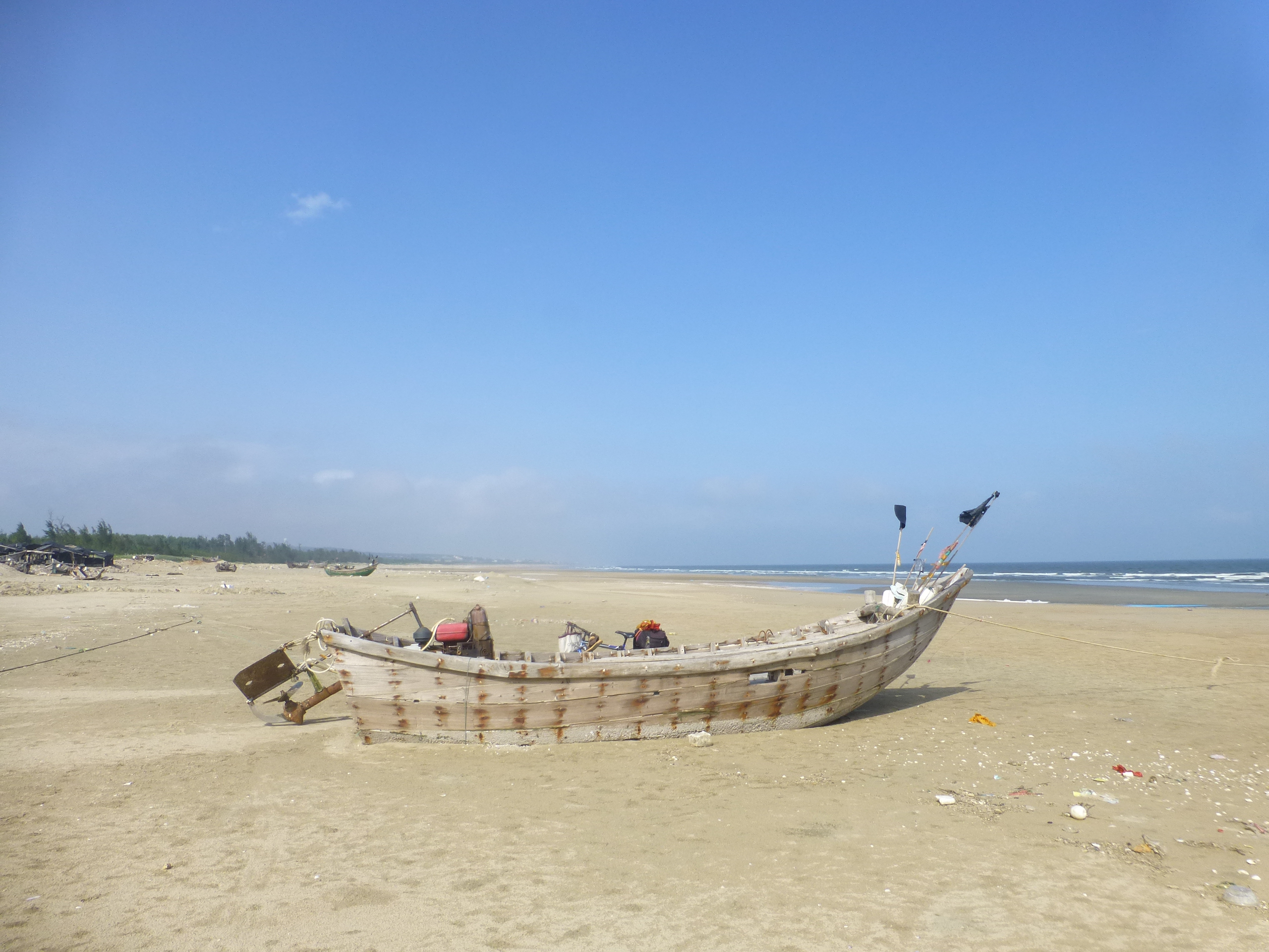 On the beach on the east shore of Donghai Island, Guangdong.